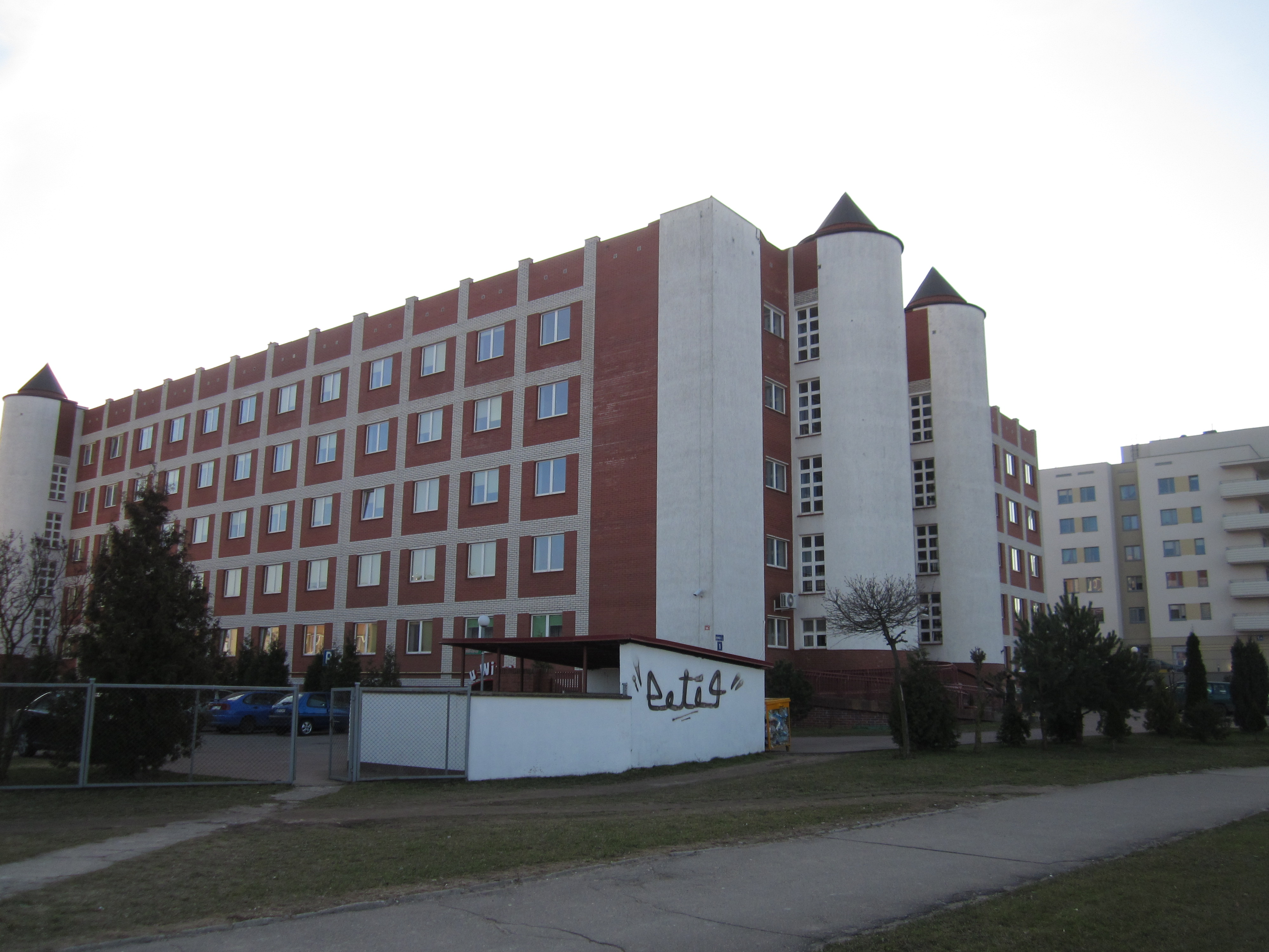 Dormitory No 1 University of Bialystok, at Żeromskiego 1 Street